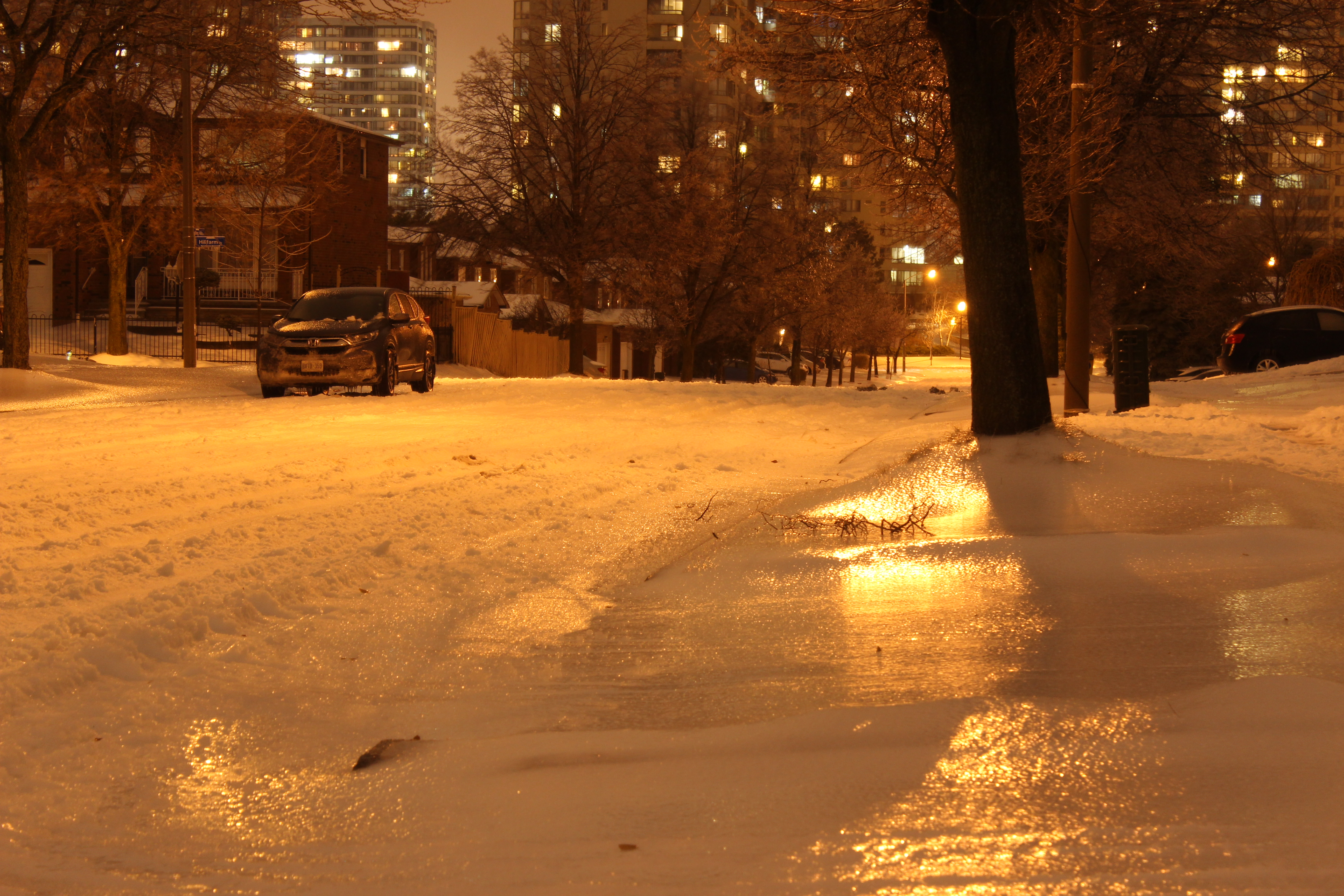 The ice storm in April 2018 in Toronto left a very picturesque setting; everything was covered with ice.